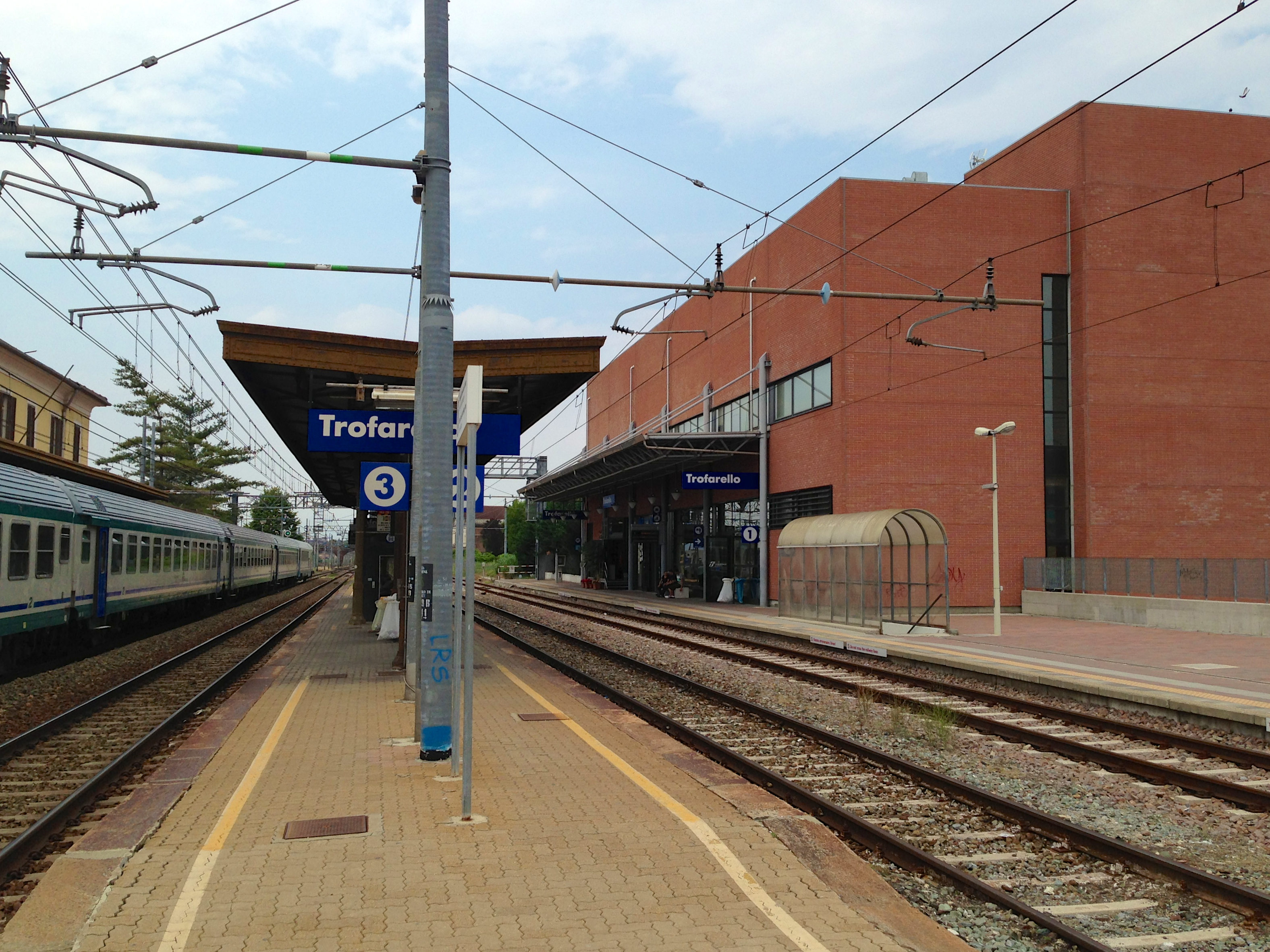 Trofarello train station